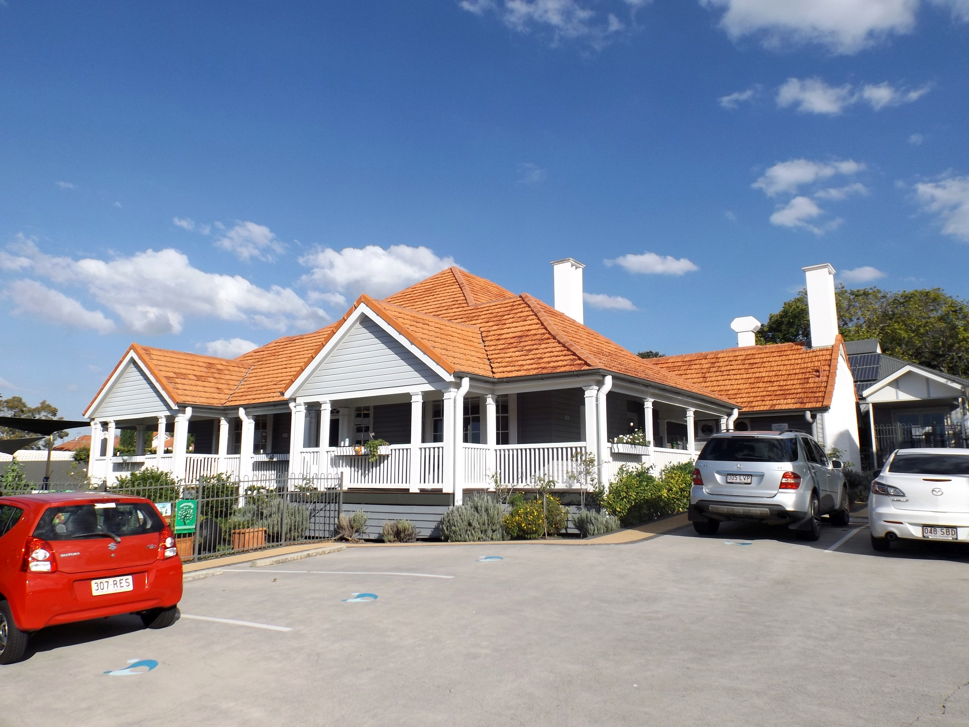 Photo of Lyndhurst at Clayfield, Brisbane, Queensland, Australia.